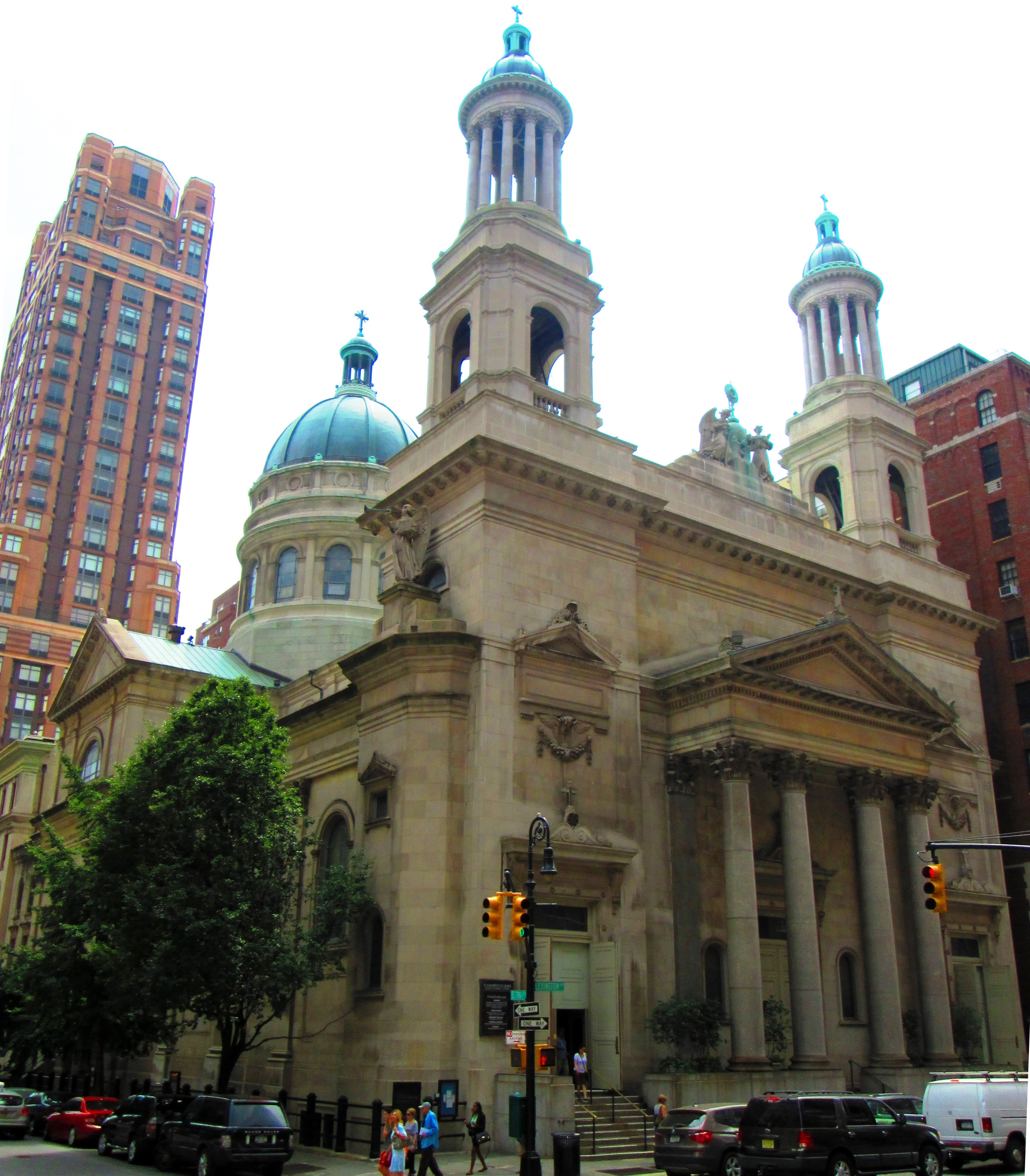 The Roman Catholic Church of St. Jean Baptiste, located at 1067-1071 Lexington Avenue (also known as 184 East 76th Street), in the Lenox Hill neighborhood of the Upper East Side, New York City, was built in 1910-13 and was designed by Nicholas Serracino, inspired by Italian Mannerism. It features a 175-foot dome. A renovation was undertaken by Hardy Holzman Pfeifer from 1996-96 in which the somber interior was decorated in bright colors by Felix Chavez, and new stained class windows by Patrick Clark were installed. (Sources: Guide to NYC Landmarks (4th ed.), From Abyssinian to Zion (2004) and AIA Guide to NYC (5th ed.))